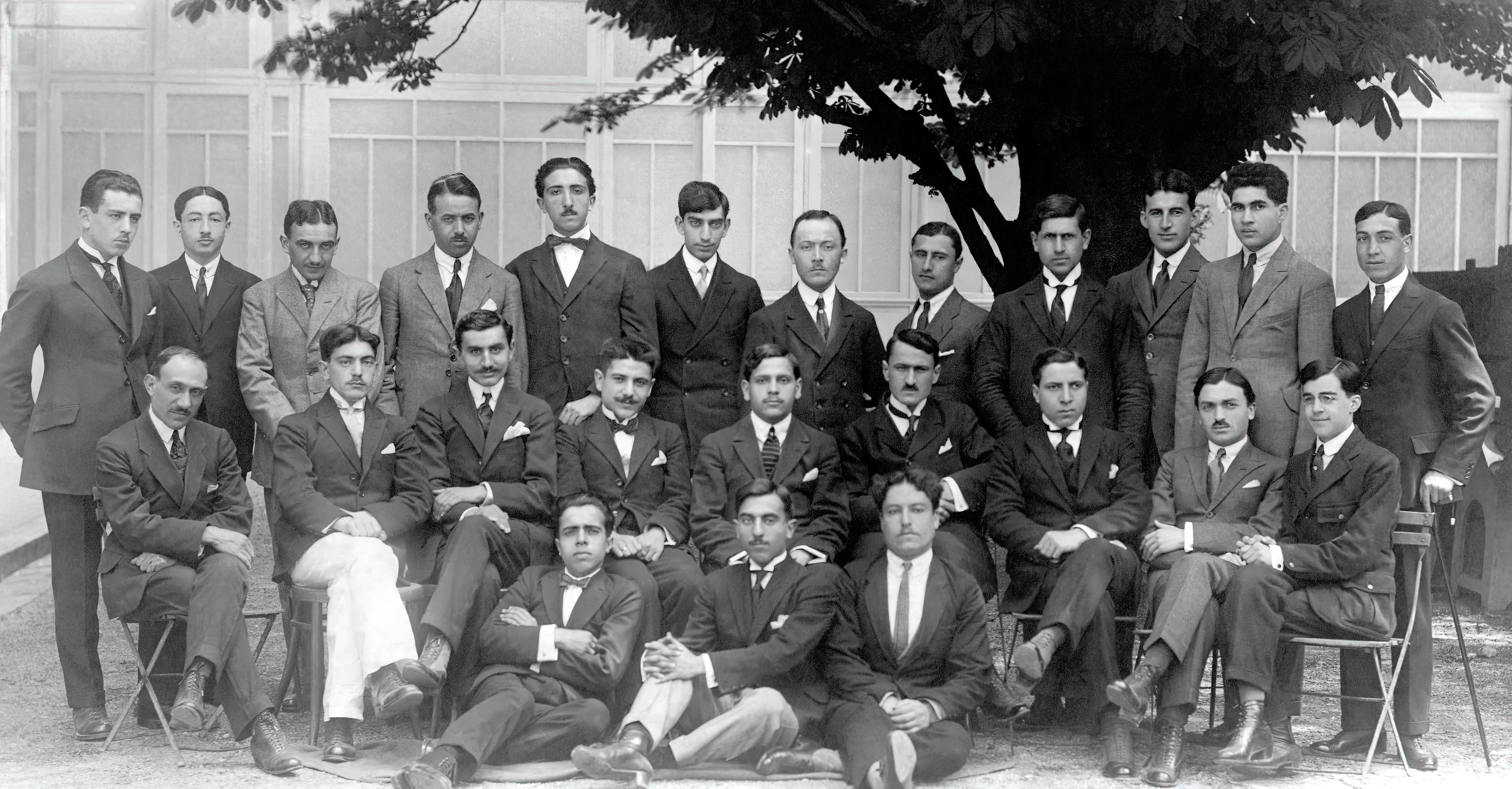 Azerbaijani students in Paris celebrating Independence Day (28 May 1920)